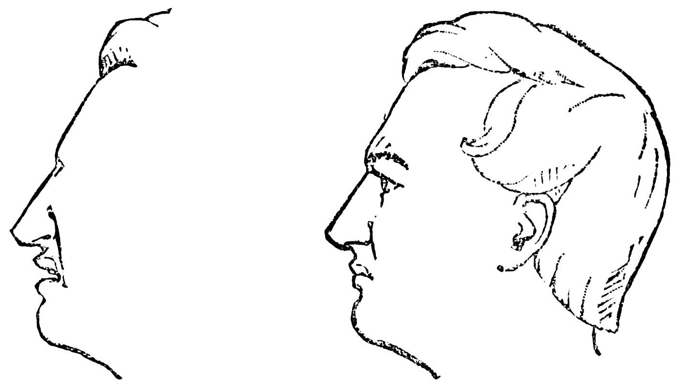 Bitter facial expressions